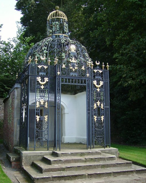 The Birdcage This wrought iron arbour was manufactured in 1706-08 for the sum of £120. It is located in the beautiful gardens at Melbourne Hall adjacent to the pond/small lake.